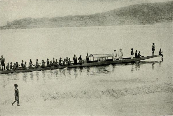 The longest boat on the Ubangi River